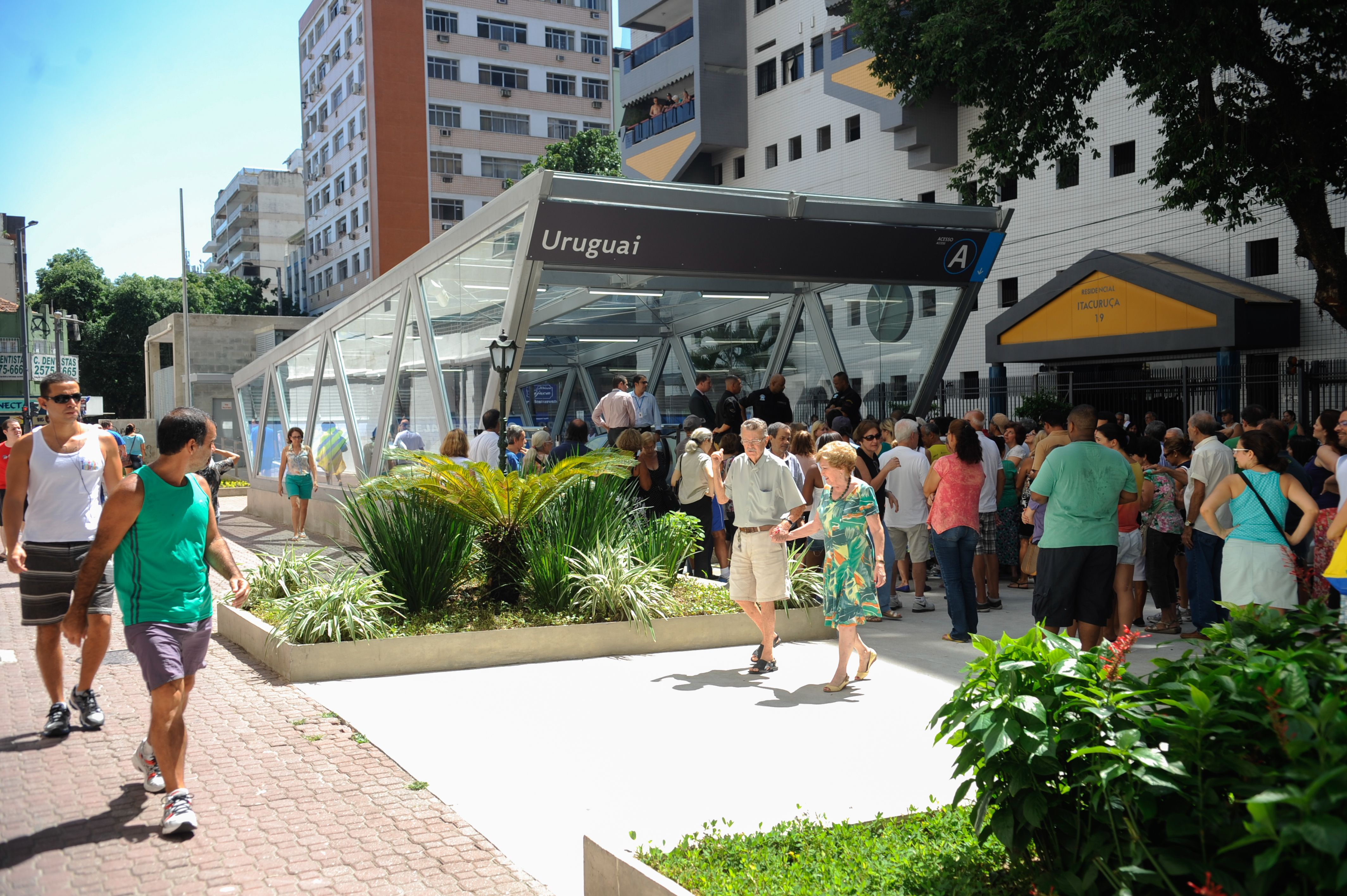 Rio de Janeiro subway - Uruguai station. Photo by Tomaz Silva/Agência Brasil, published under a CC BY 3.0 license